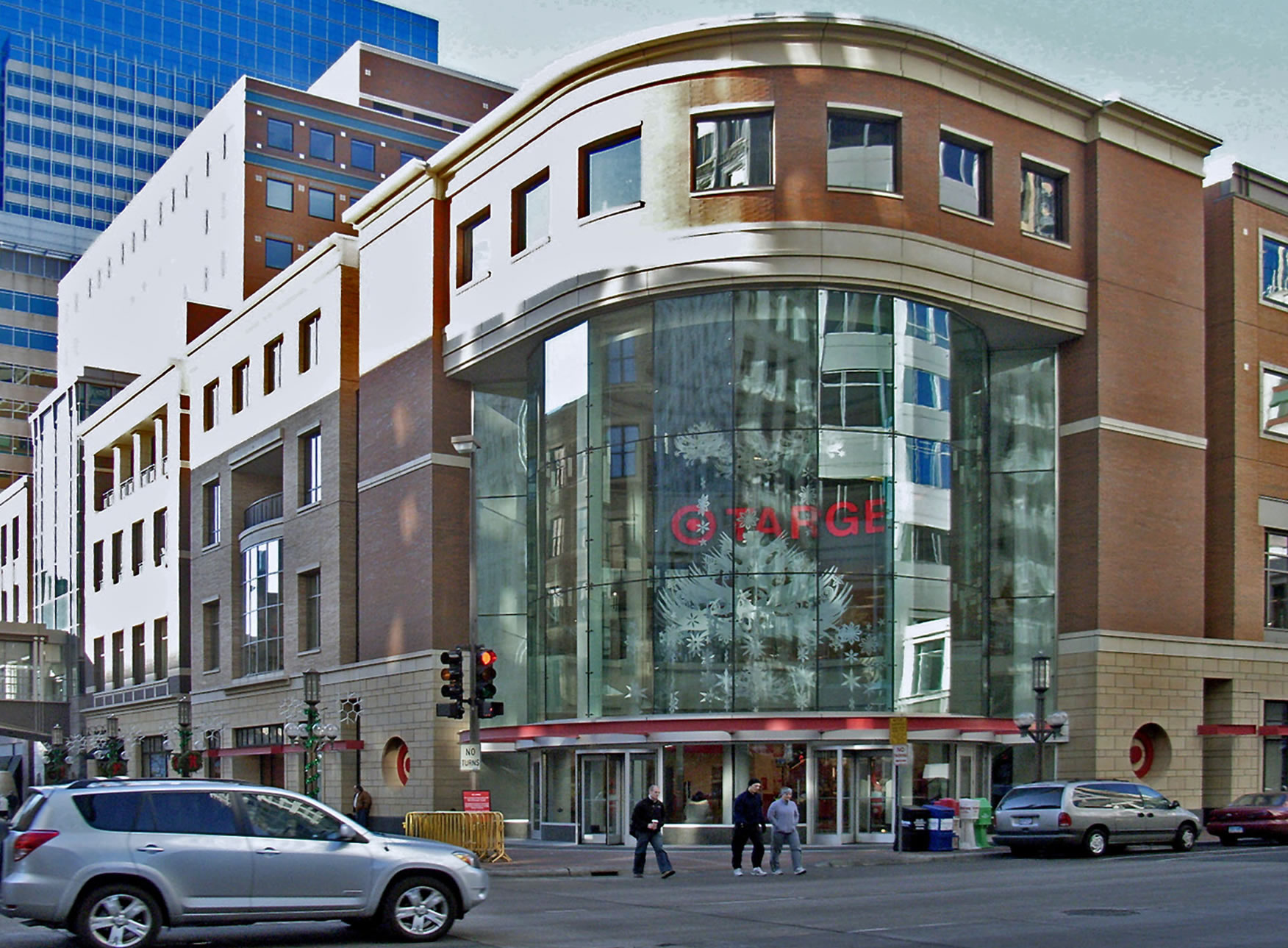 this block houses Target headquarters (blue tower) and a two level flagship with several entrances (at street and second/skyway level) and a bit of liner retail tucked beneath. Layout inside is similar to South Loop: a passageway just inside the store, but outside the registers runs along the store's short end, connecting the entrances along Nicollet.